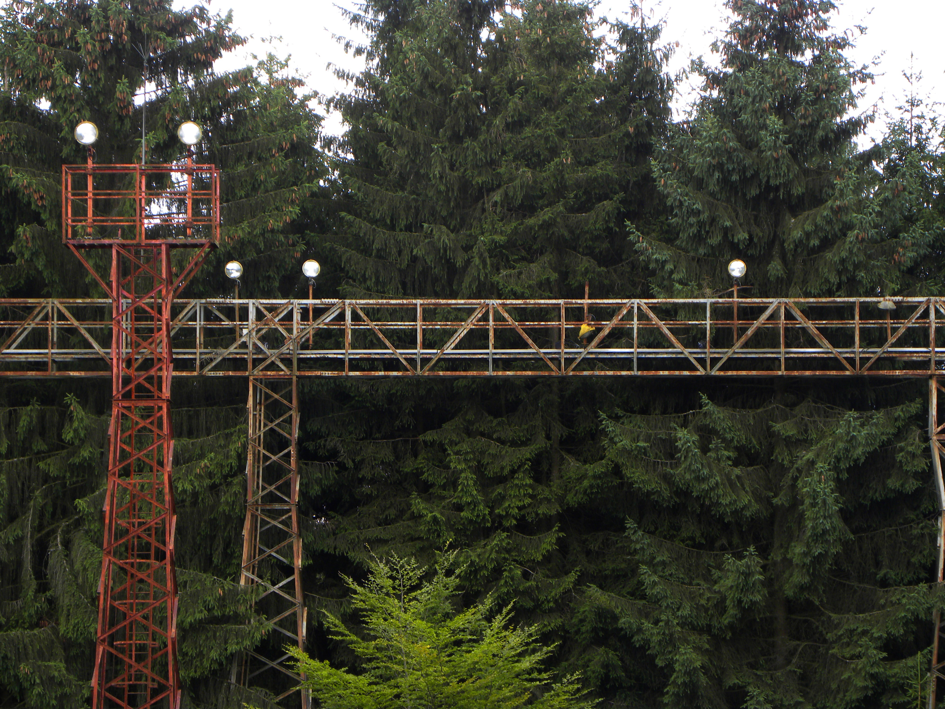 Approach lighting Saint-Hubert Air Base, Belgium